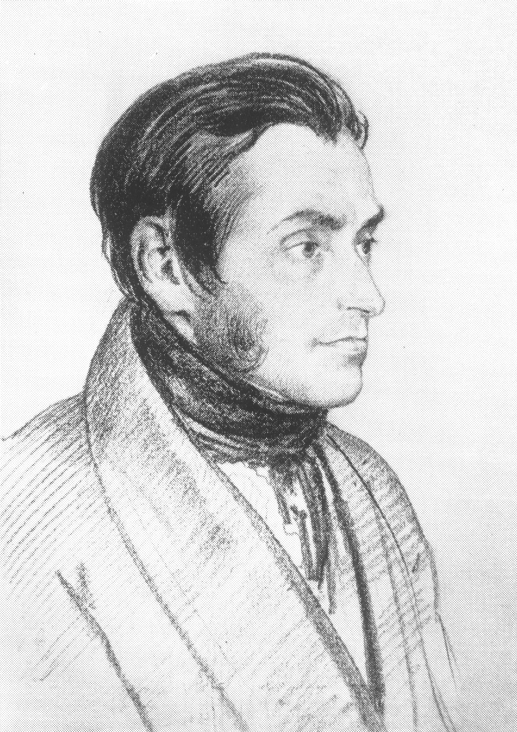 Portrait of Adam Mickiewicz (drawing by Orest Kiprensky, 1824-1825)